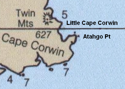 Detail from Bering Sea nautical chart showing Nunivak Island and surrounding area.